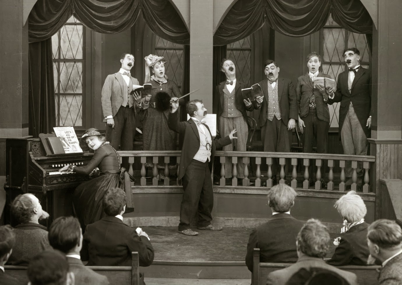 L. to R. : Phyllis Haver, James Finlayson, Louise Fazenda, Chester Conklin, Ben Turpin, Charles Lynn, Paddy McQuire, and Garry Odell in The Foolish Age (1919) - publicity still